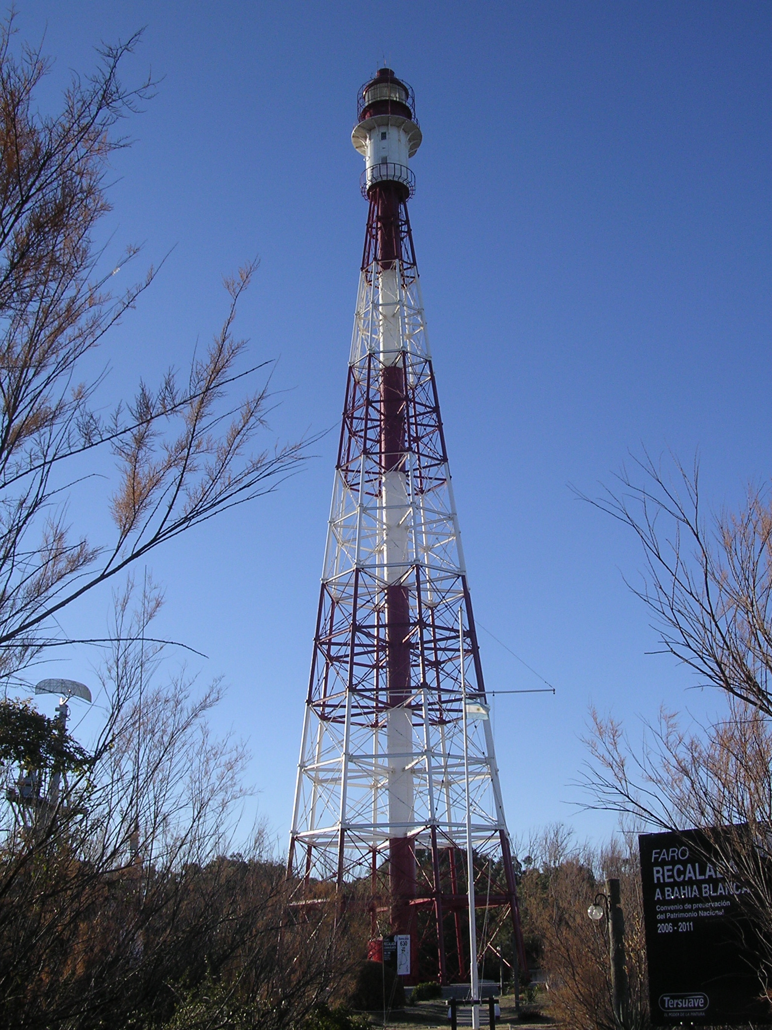 Recalada a Bahia Blanca Lighthouse. Monte Hermoso, Buenos Aires province, Argentina.